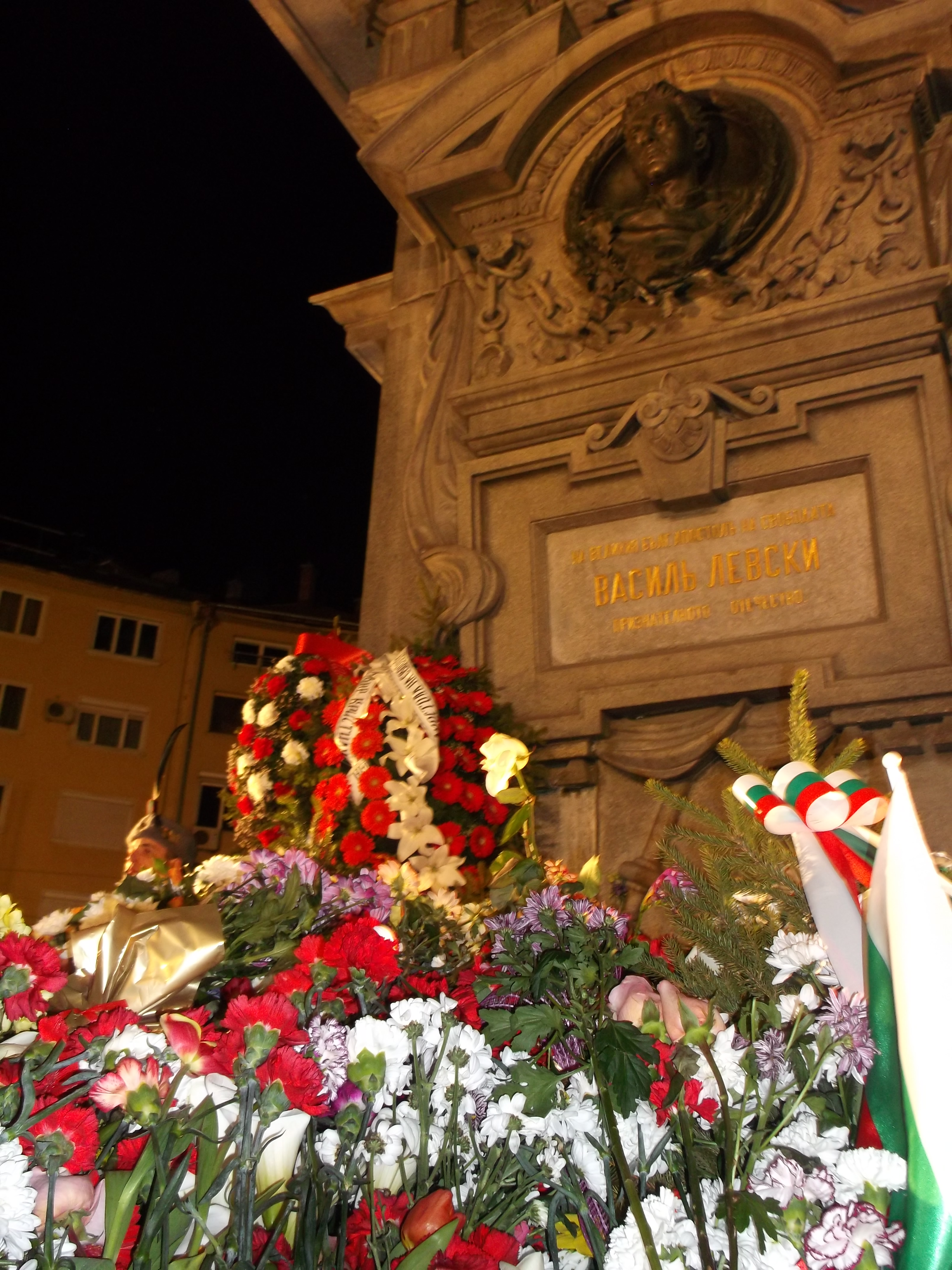 Levski monument in Sofia